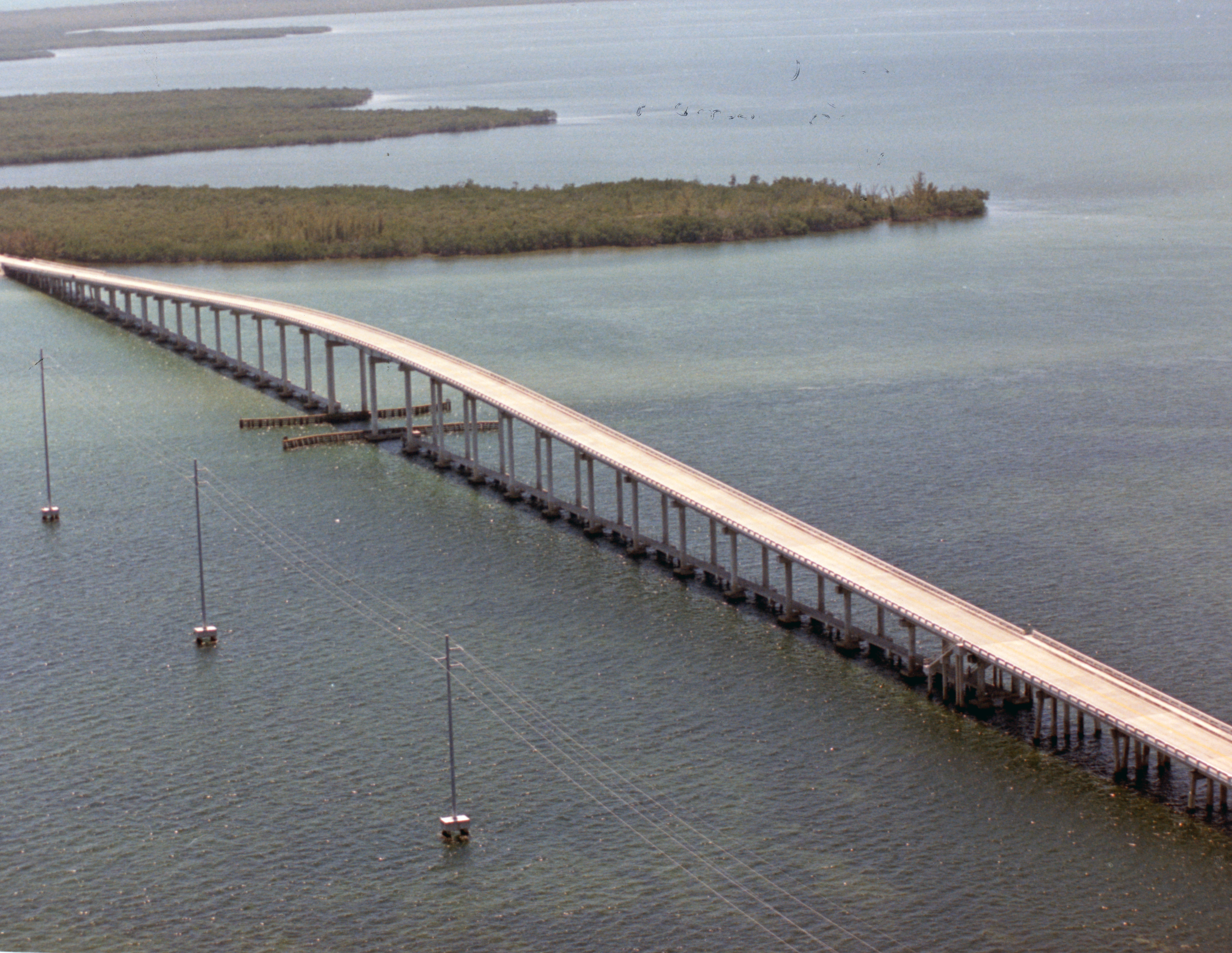 Aerial of the Card Sound Bridge. Photo taken by the Federal Government on October 7, 1987. From the Wright Langley Collection.